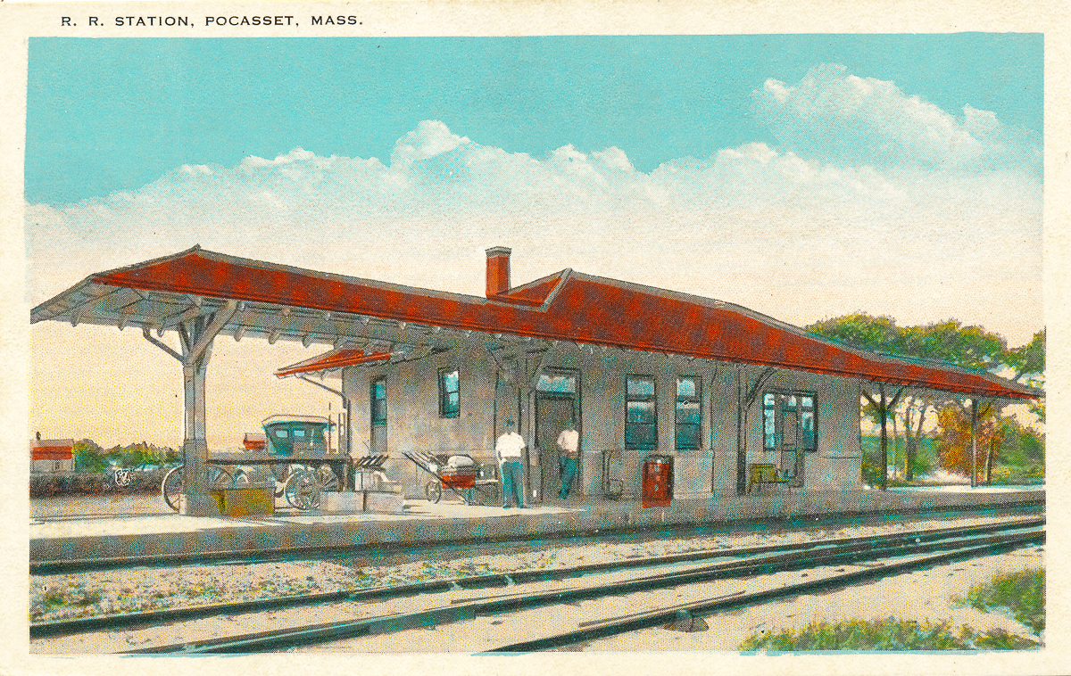 An early postcard showing the former Pocasset, Massachussetts train station on Cape Cod.